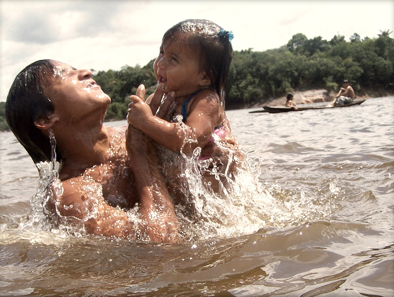 Comunity Nova Esperança, Baré people. Cuieiras river, tributary of the Rio Negro, Amazonia, Brazil.